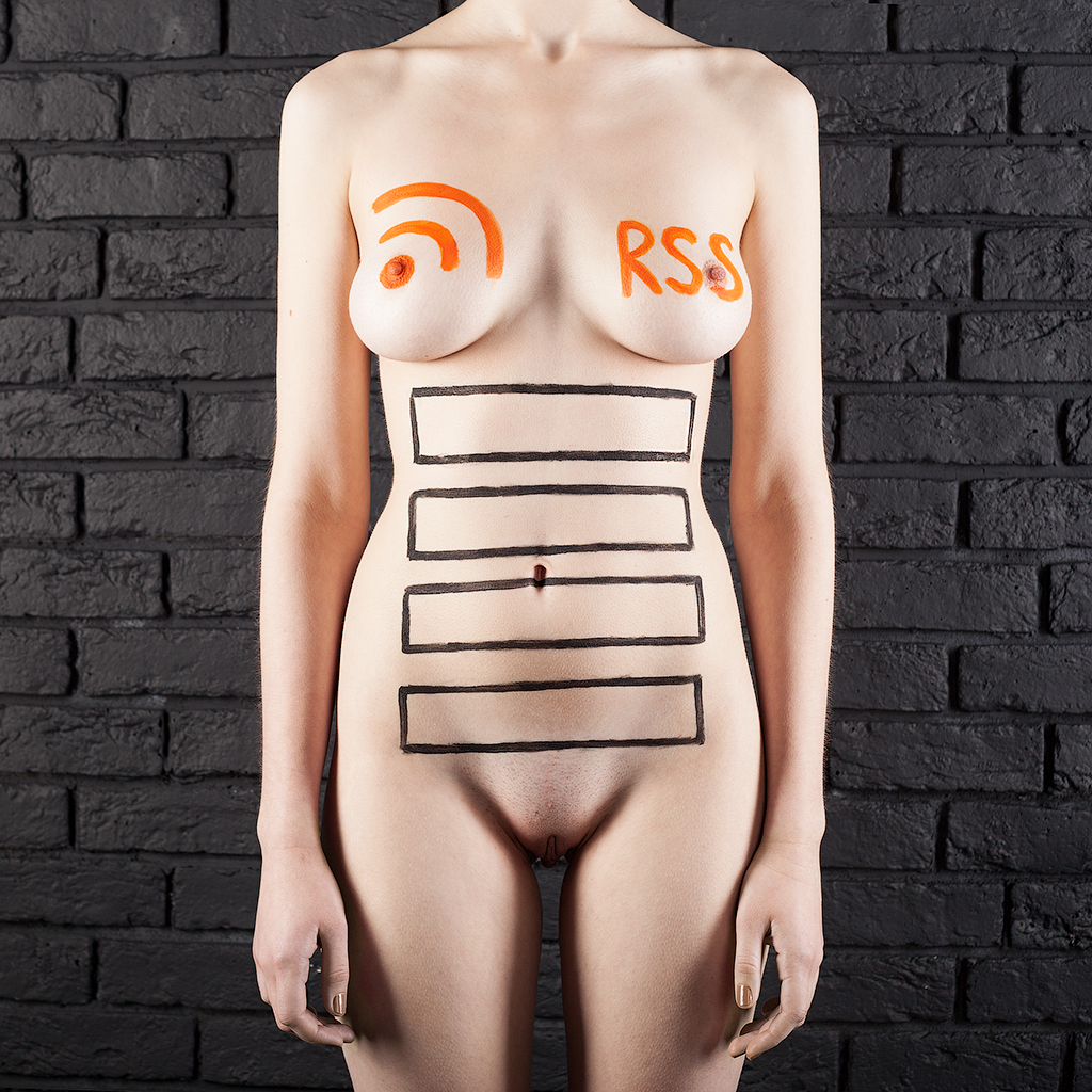 Photographer's original description: Rich Site Summary is a web feed formats used to publish blog entries and news headlines in unified XML-based format. First version of RSS, was released in March 1999. A naked woman is photographed from her neck to her thighs. RSS and its icon are painted in orange onto her breasts, black rectangles are painted onto her stomach.